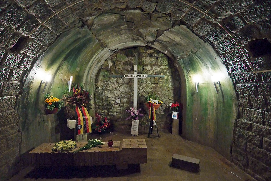 Fort Douaumont – Verdun, Lorraine, France